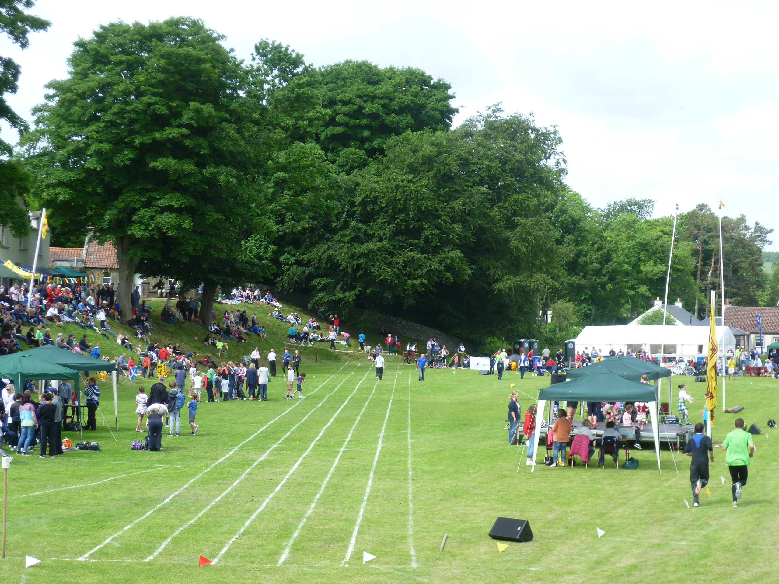 The Bow Butts shortly before the start of the Ceres Highland Games 2013